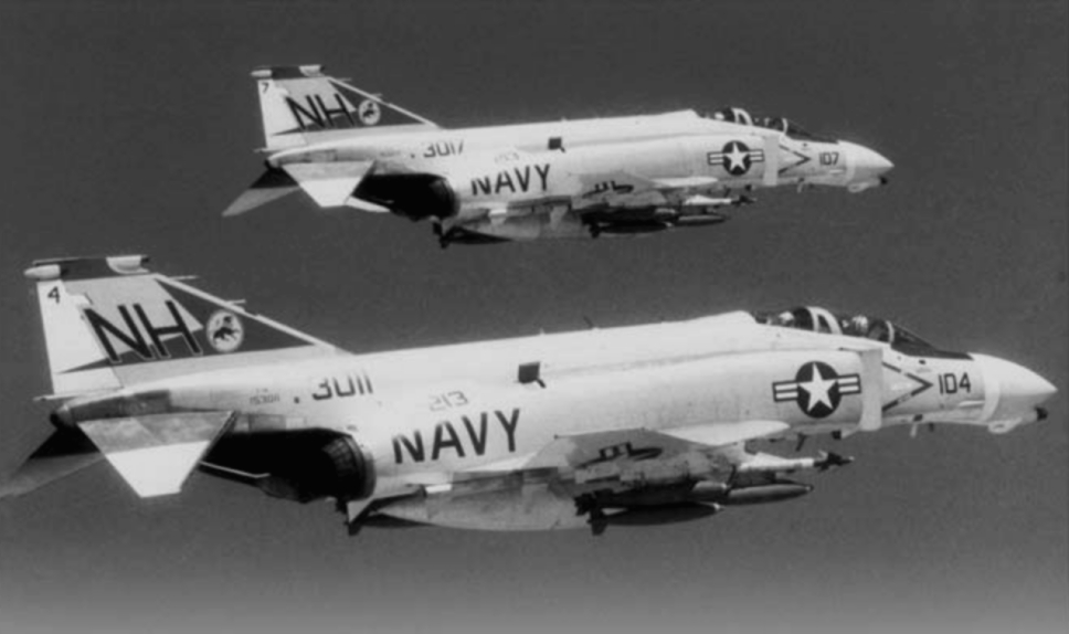 Two U.S. Navy McDonnell F-4B-26-MC Phantom II fighters (BuNo 153011, 153017) from Fighter Squadron VF-213 Black Lions en route to a target in Vietnam. VF-213 was assigned to Attack Carrier Air Wing 11 (CVW-11) aboard the aircraft carrier USS Kitty Hawk (CVA-63) for a deployment to Vietnam from 5 November 1966 to 20 June 1967.